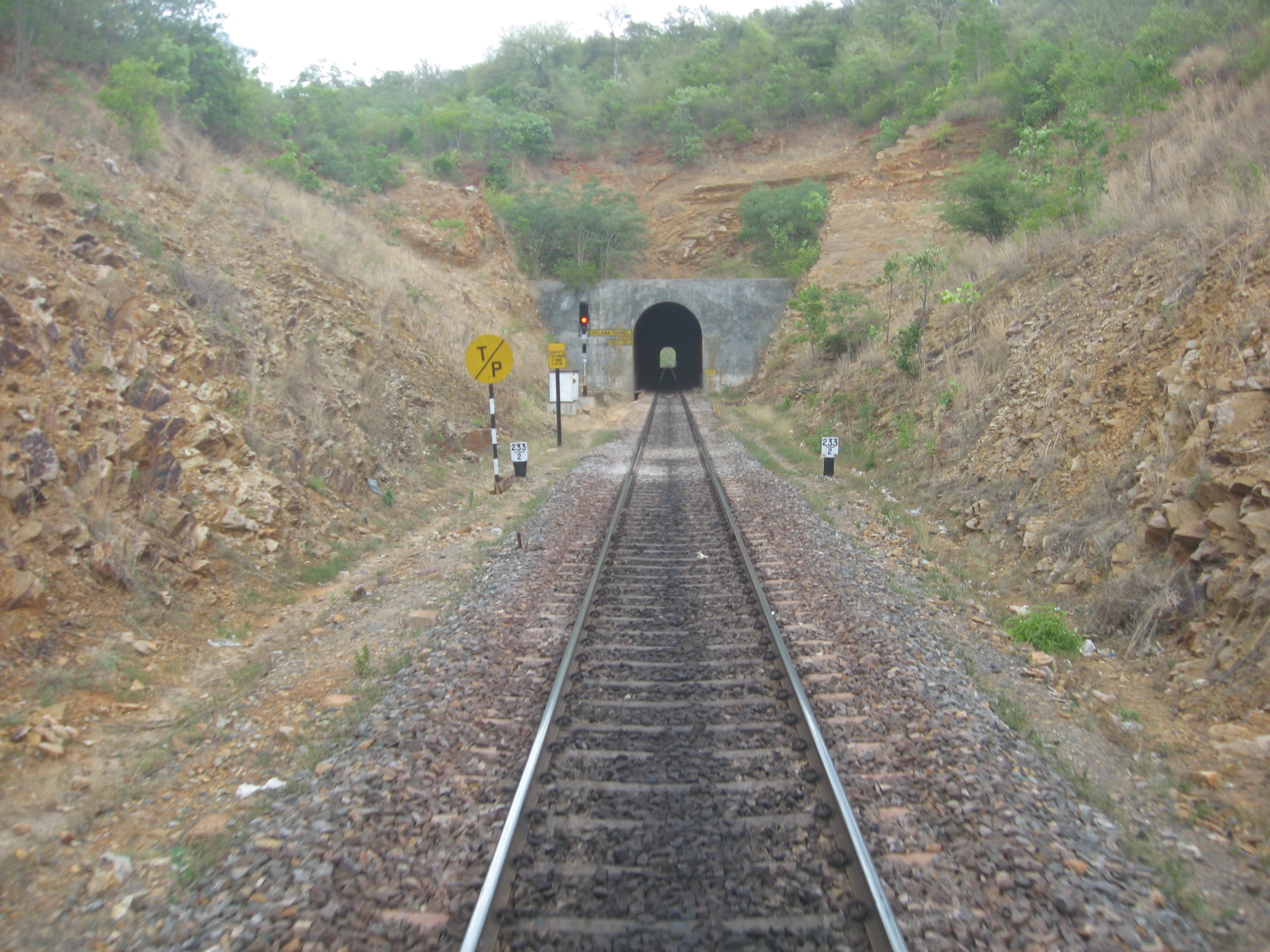 A view of the Chelama Tunnel, Prakasam District, India.